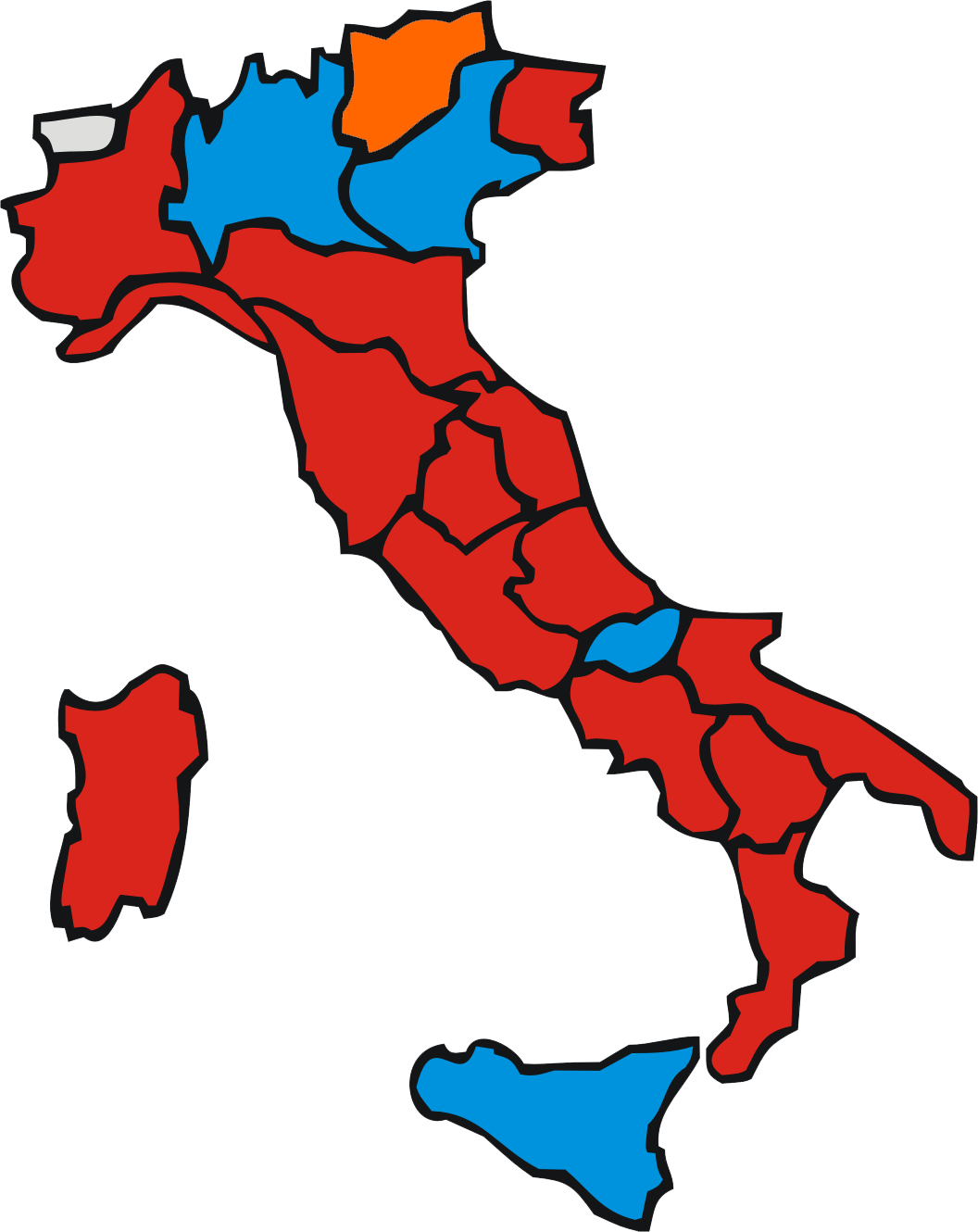 The political situation after the regional elections of April 2005 in Italy. (Red=The Union; Blue=House of Freedoms; Light Grey=Union Valdotaine; Orange=SVP & Olive Tree)